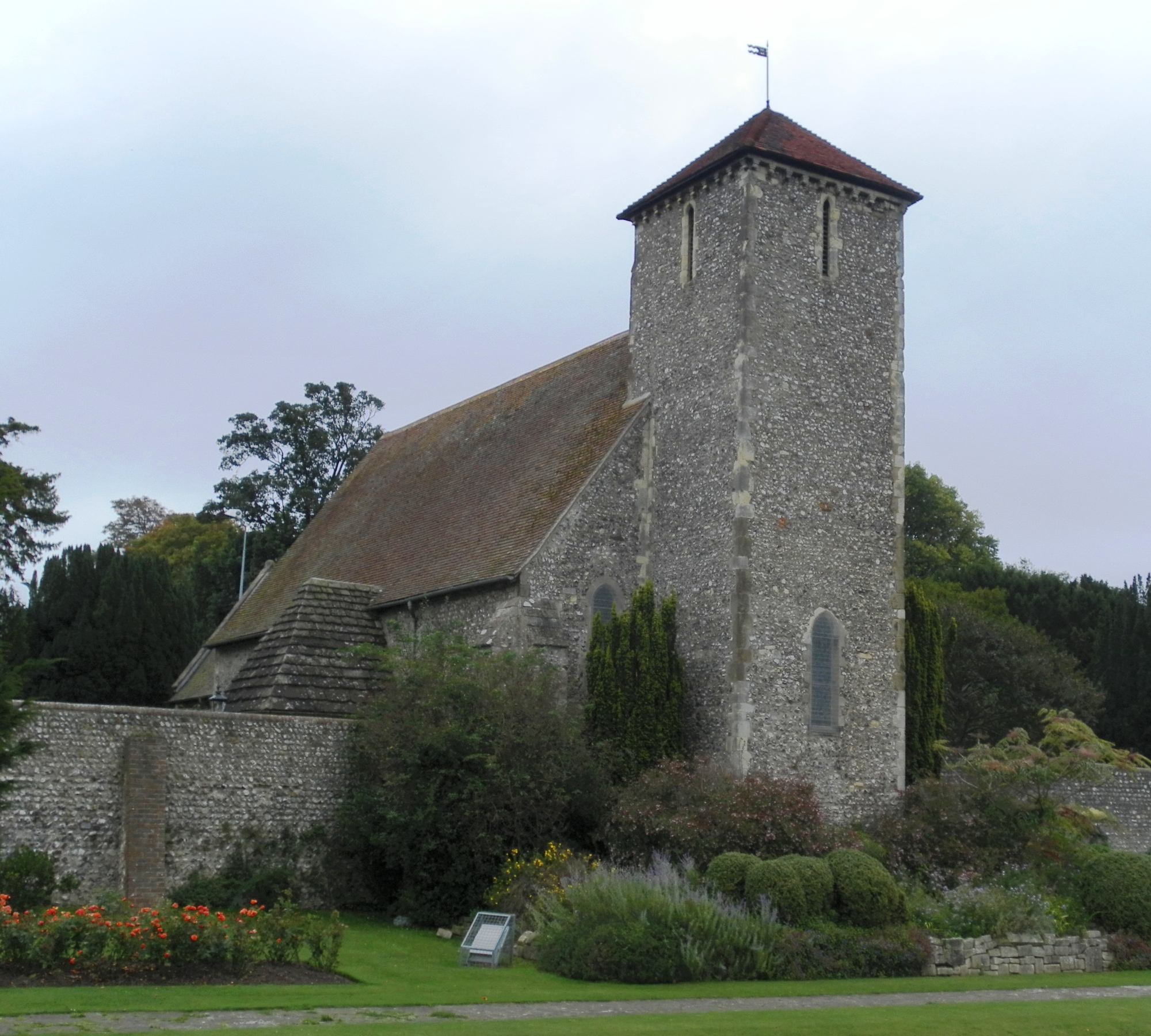 St Peter's Church, Preston Village, City of Brighton and Hove, England. A medieval church next to the ancient Preston Manor; restored in the 19th century, but damaged by fire in the early 20th century and closed. Listed at Grade II* by English Heritage (NHLE Code 1380743)